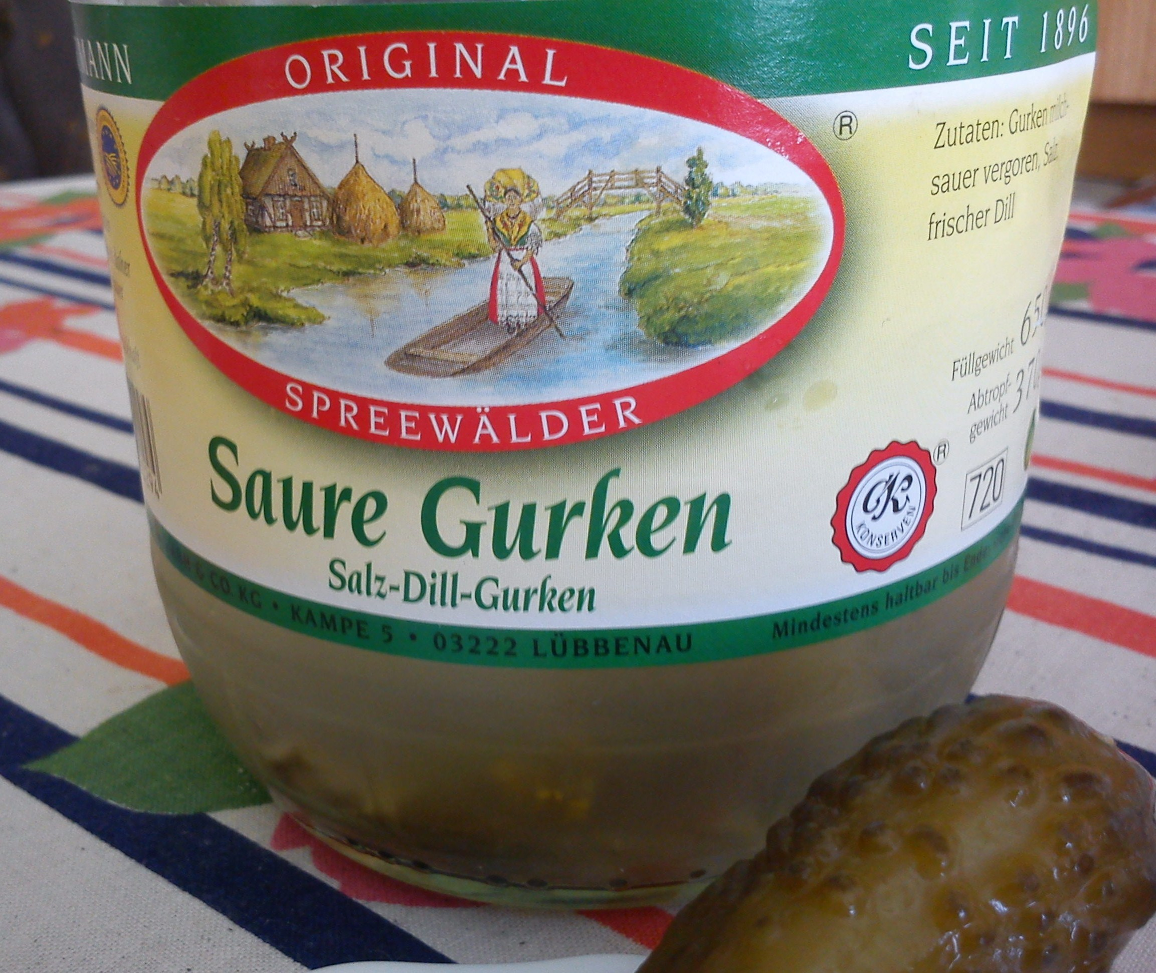 Cucumbers from Spreewald (DE)